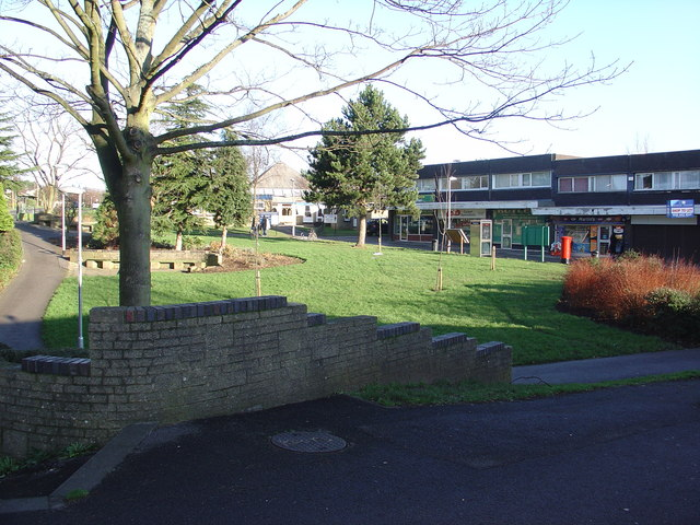 St Andrews Church and Pentland Road Shops, Gosforth Valley A Church strong in the ecumenical tradition with its church school nearby.